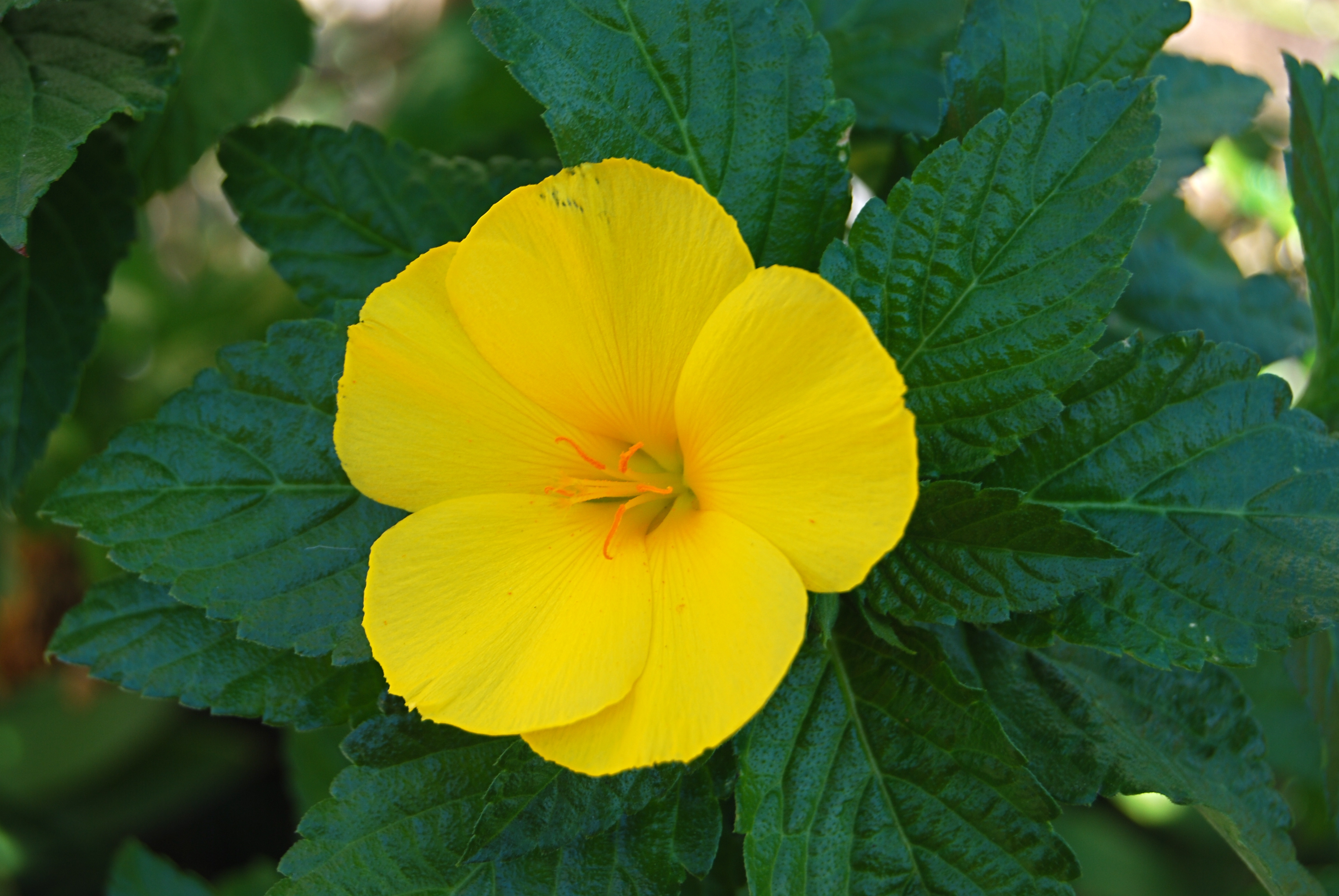 A Yellow Alder found on the island of Key West, Florida